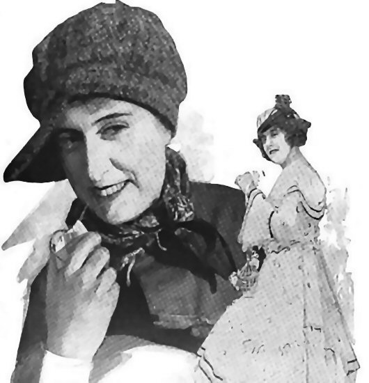 Actress Claire McDowell ca. 1915